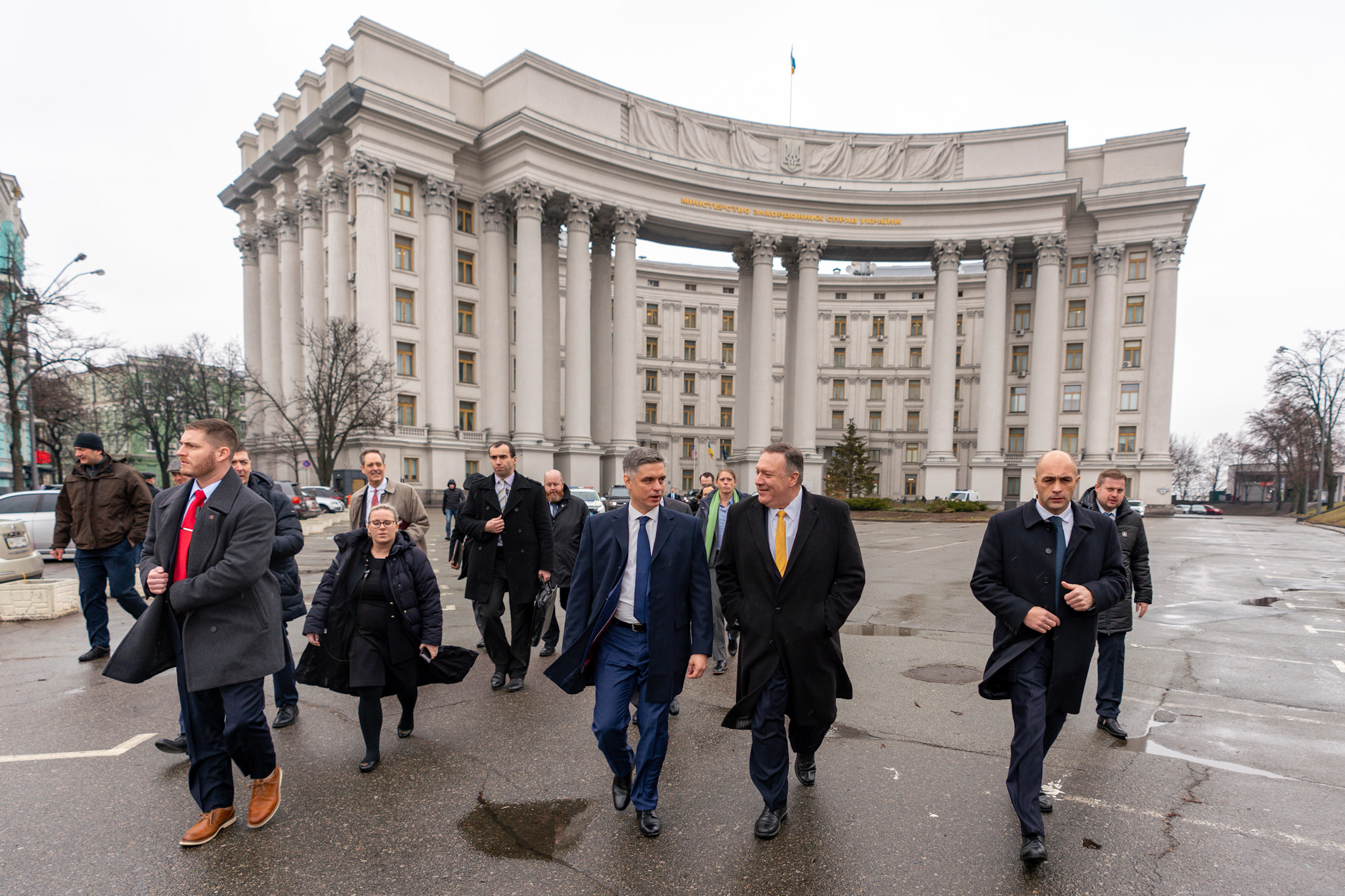 U.S. Secretary of State Michael R. Pompeo meets with Ukrainian Foreign Minister Vadym Prystaiko in Kyiv, Ukraine, on January 31, 2020. [State Department Photo by Ron Przysucha/ Public Domain]